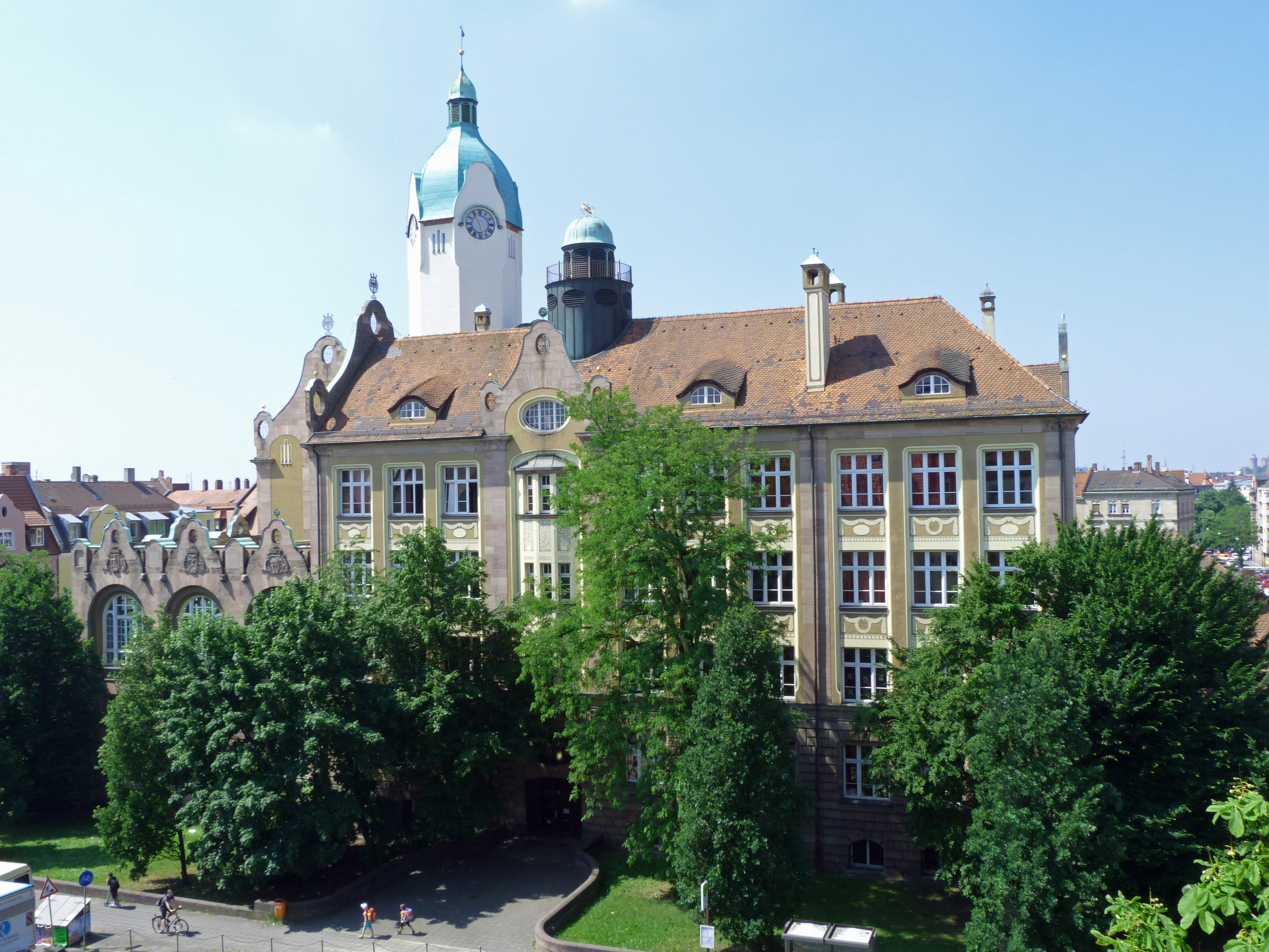 Bismarckschule in Nürnberg-SchoppershofThis is a photograph of an architectural monument.